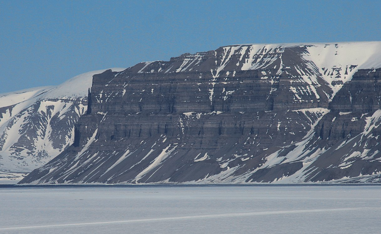 Sassenfjord on Spitzbergen, Svalbard May 2008